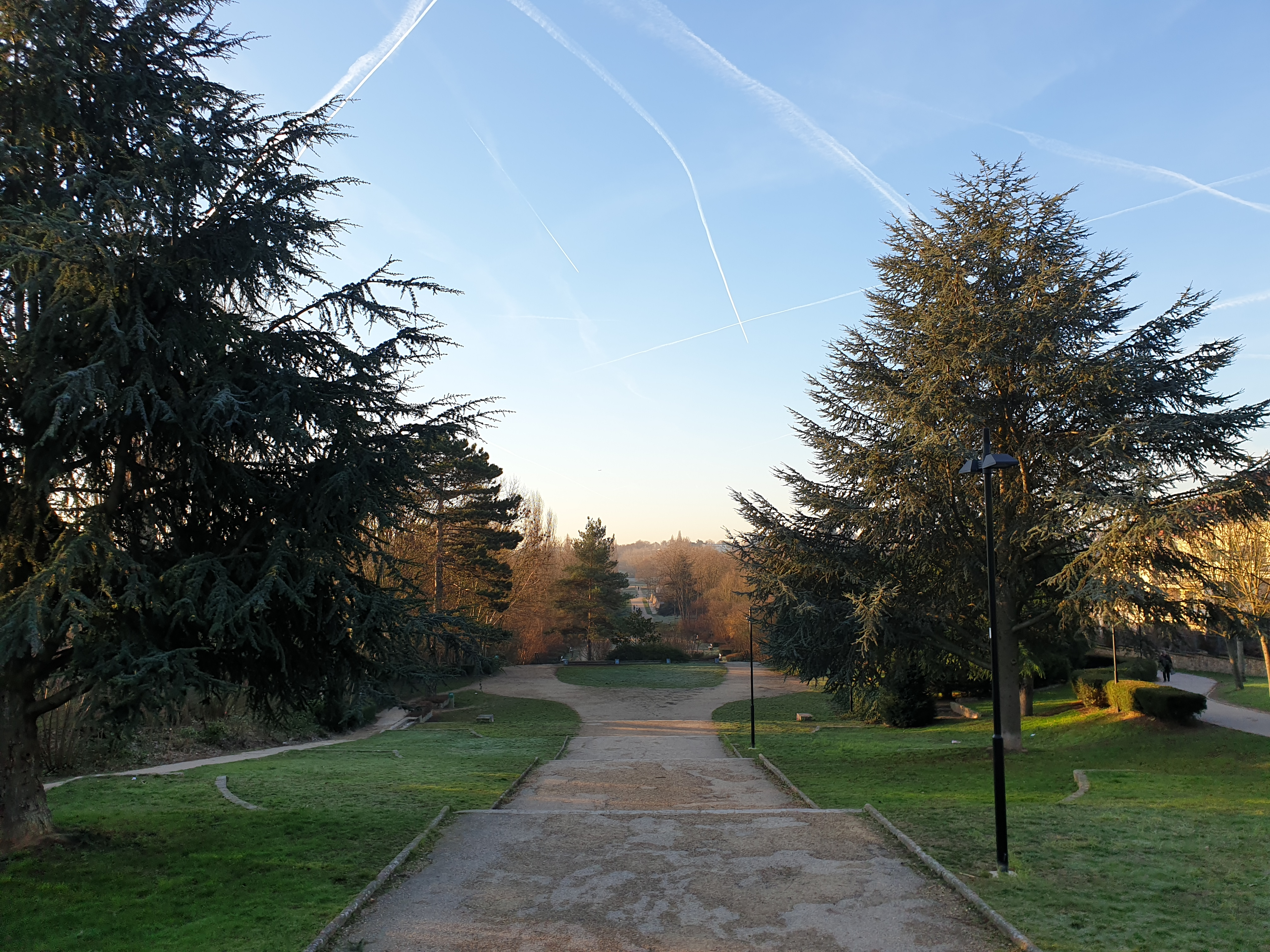 The Coulée verte du sud parisien in Sceaux.